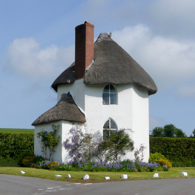 Stanton Drew toll house Also known as the Round House it stands by the Chew Magna to Pensford road where it is met by the lane to Stanton Drew. The early 19th century building is in fact hexagonal.